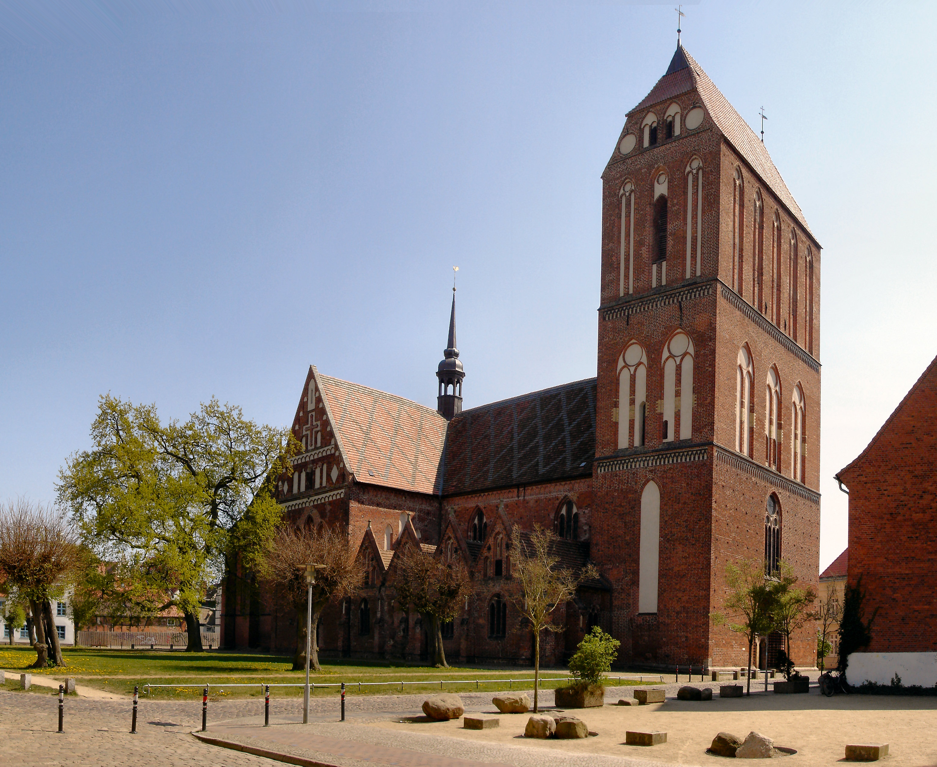 Dom Güstrow / cathedral in Güstrow